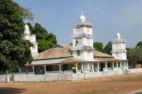 Mosques along the road